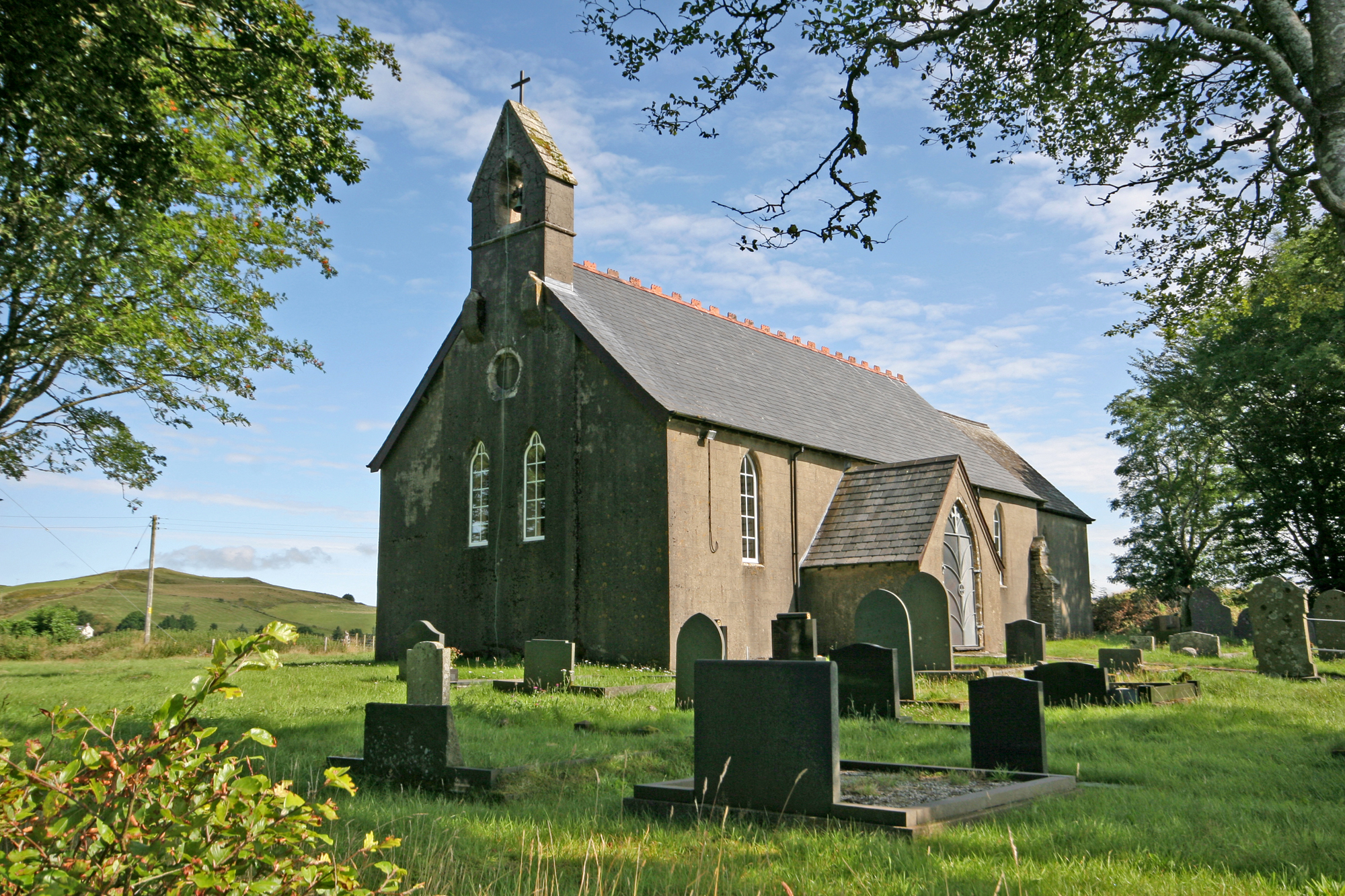 Church of SS Dewi, Teilo and Padarn, Trisant, Ceredigion, Wales